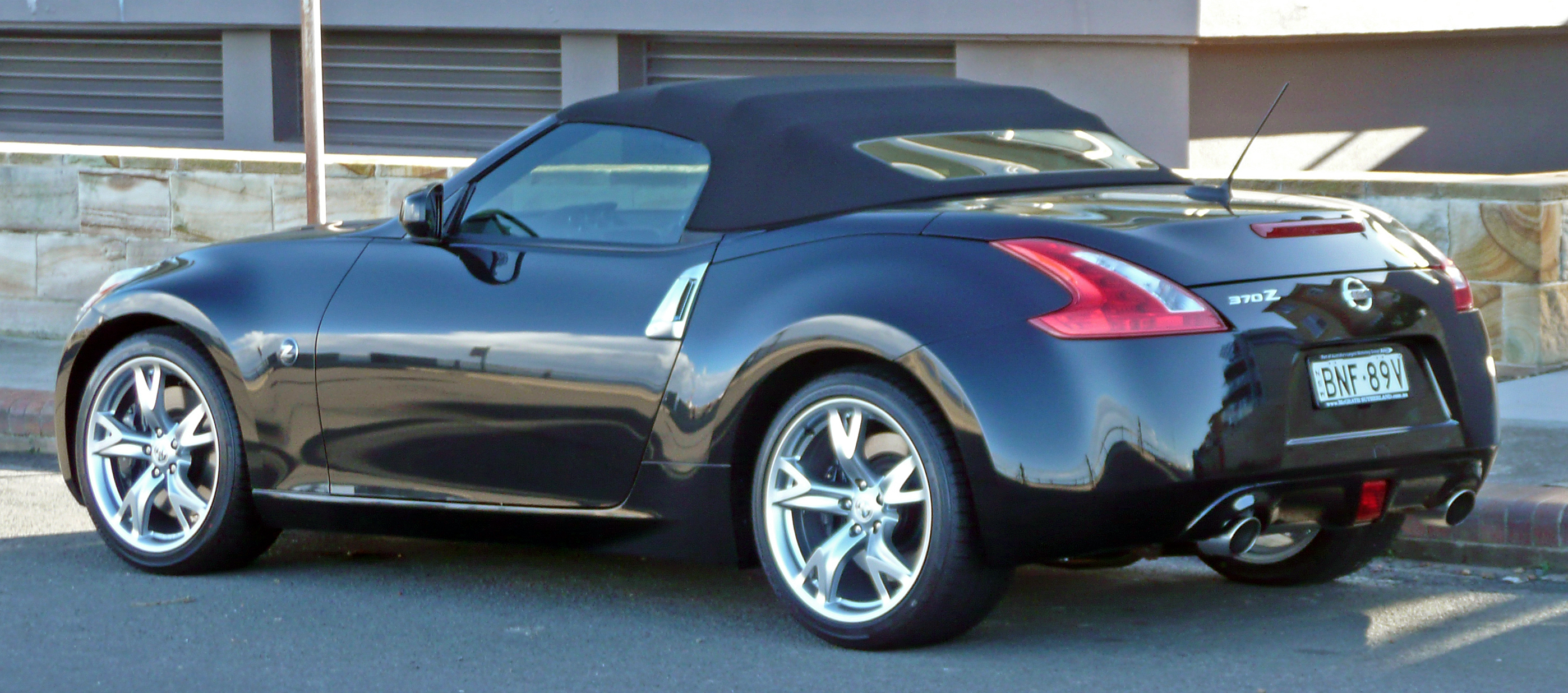 2010 Nissan 370Z (Z34) roadster. Photographed in Cronulla, New South Wales, Australia.